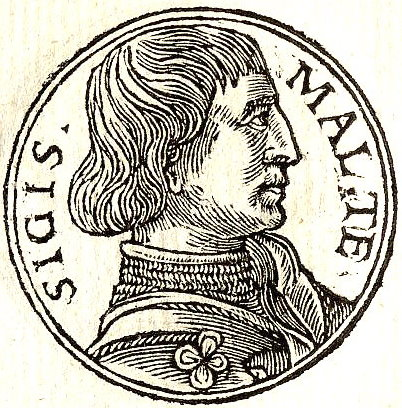 Sigismundo Malatesta was an Italian condottiero.